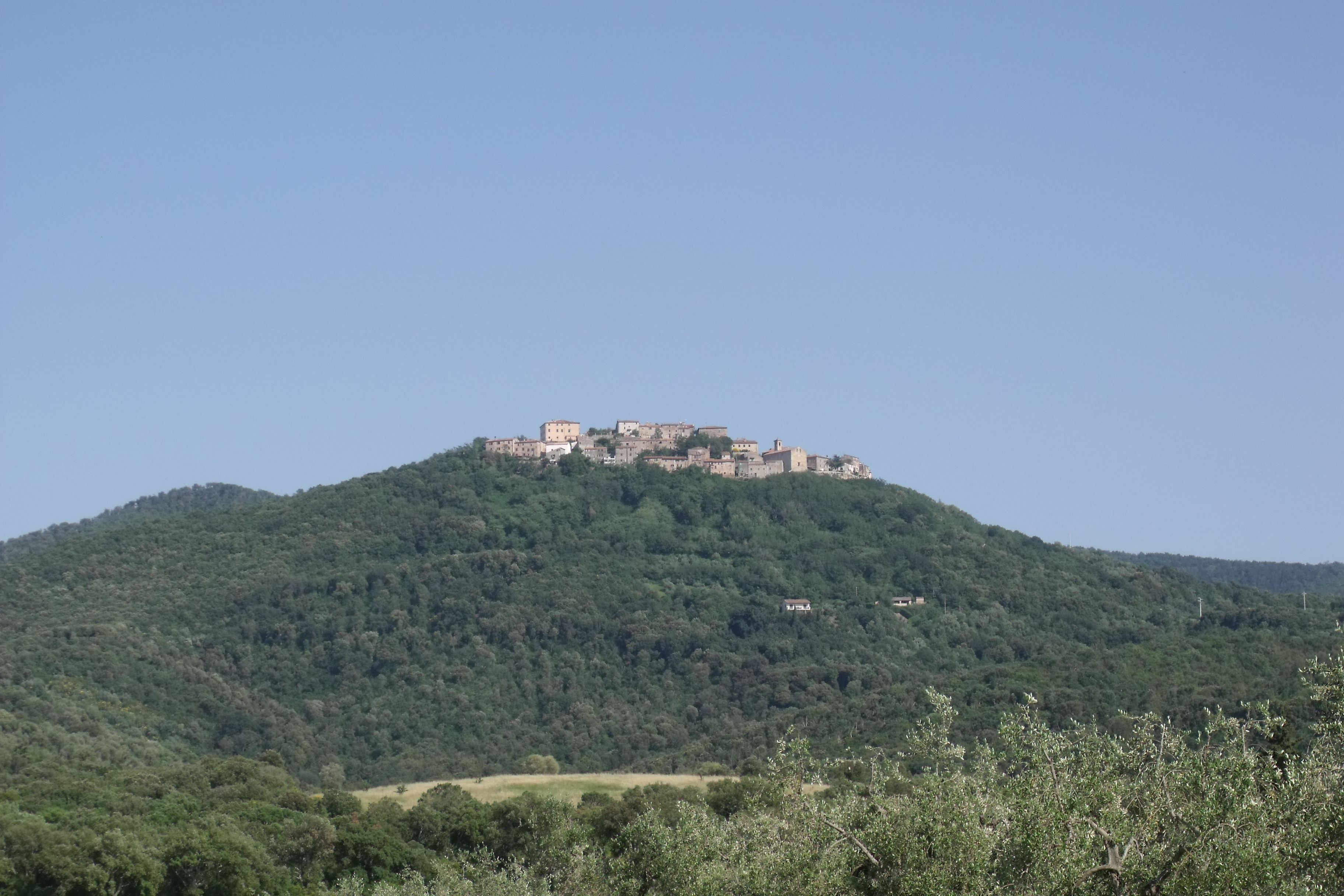 Panorama of Sticciano, Hamlet of Roccastrada, Maremma / Colline Metallifere, Province of Grosseto, Tuscany, Italy